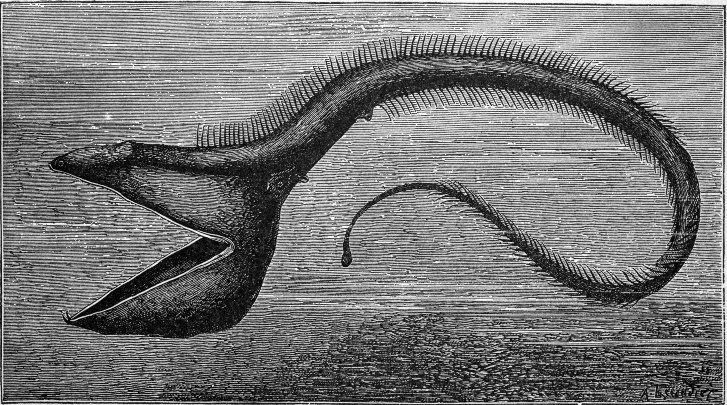 Eurypharynx pelecanoides